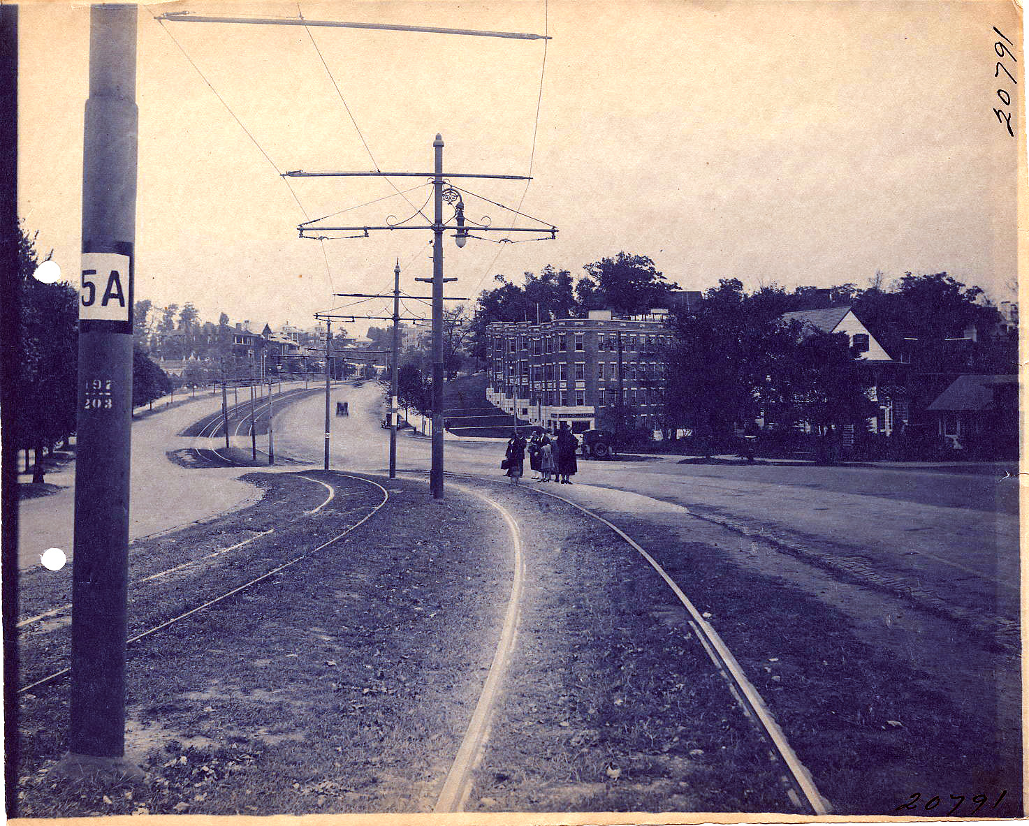 Passengers wait on the inbound platform at Braemore Road in the early 20th century. The rowhouses behind them were built in 1910; the lack of automobiles means it cannot be much later.